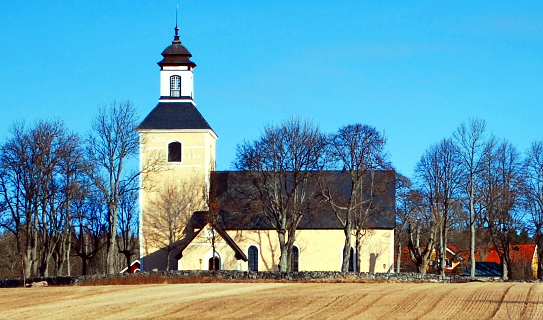 South side of Närtuna Kyrka, Sweden